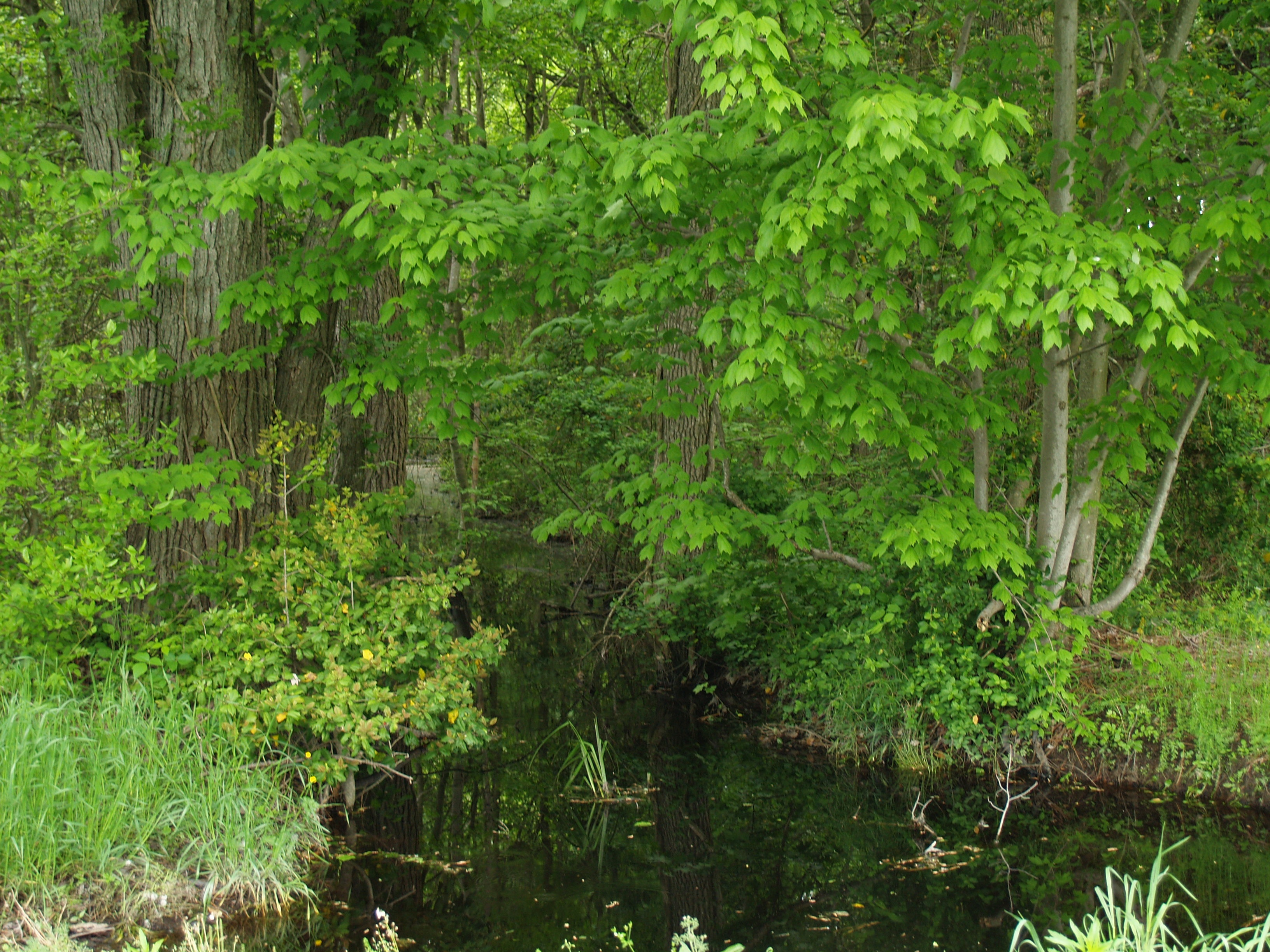 Tanyard Branch in Delaware. Image was taken in 2009.